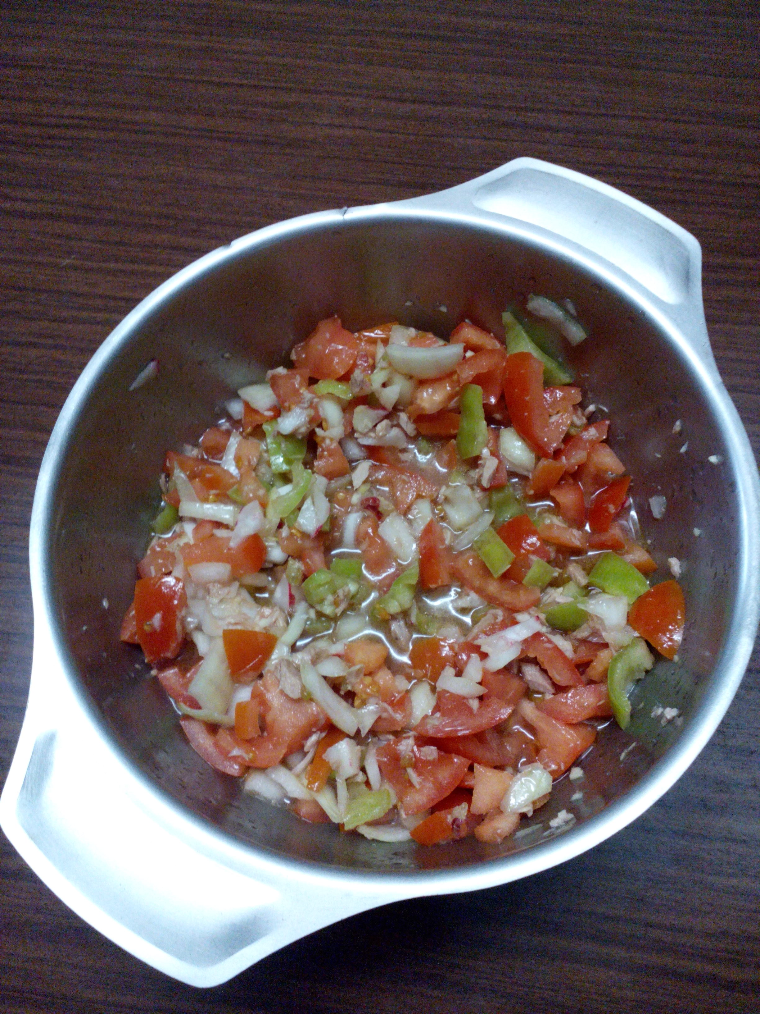 Tipical Majorcan salad known as trempó.